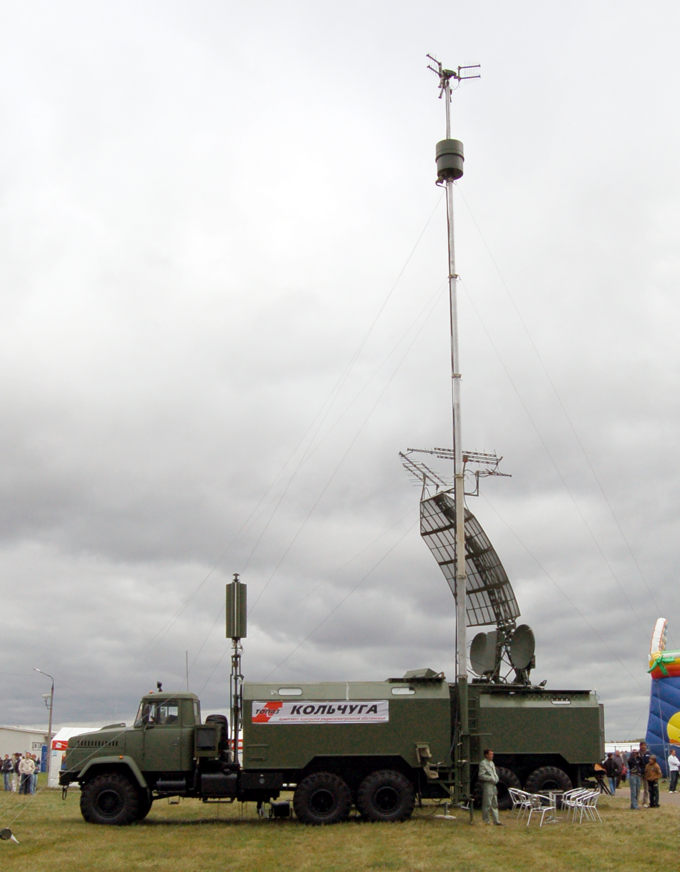 passiv Radarsystem "Hauberk" (Koltschuga) for long range SIGINT